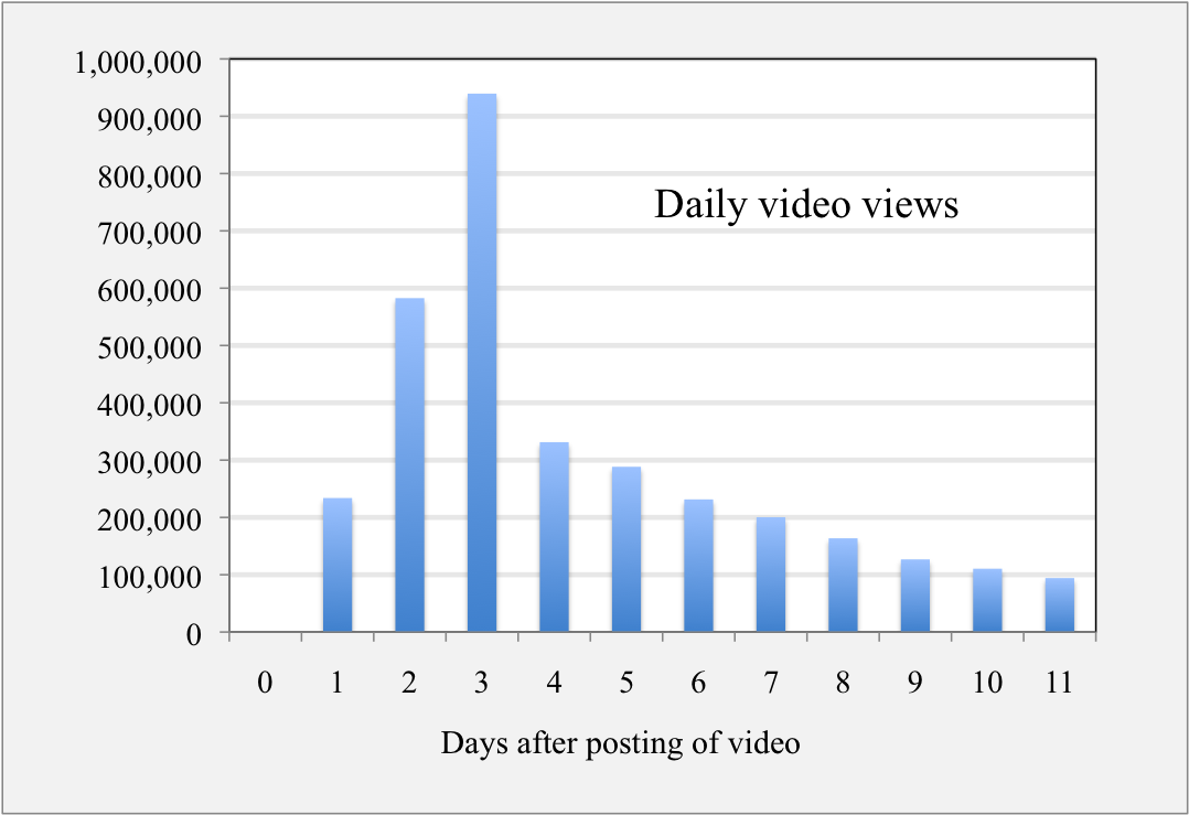 Graph of video views of video President Obama on Death of Osama bin Laden (SPOOF) Video title: President Obama on Death of Osama bin Laden (SPOOF) - Now on iTunes! (Momentous Day) Raw data accessed from WebCite archived versions of YouTube video page. Day Cumulative views Daily views Cite 4-May-11 0 0 0 5-May-11 1 233,837 233,837 6-May-11 2 816,446 582,609 7-May-11 3 1,755,886 939,440 8-May-11 4 2,087,201 331,315 9-May-11 5 2,375,554 288,353 10-May-11 6 2,606,980 231,426 11-May-11 7 2,807,390 200,410 12-May-11 8 163,593 (linear interpolation) 13-May-11 9 3,060,942 126,776 14-May-11 10 110,496 (linear interpolation) 15-May-11 11 3,249,373 94,216